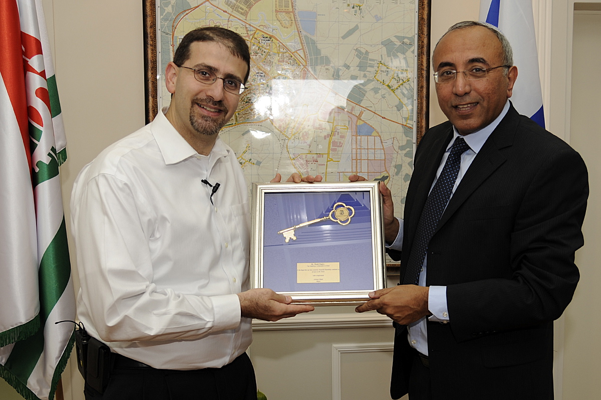 U.S. Ambassador Daniel Shapiro on his first official visit to Kiryat Gat, met with the mayor, Aviram Dahari, and the 17 council members, who presented him with the key to the city in a short ceremony. A 7-piece elementary school string band representing Kiryat Gat's diverse population played Hanukkah tunes at ceremony. The Ambassador was also introduced to Ethiopian elementary school students who attend Moadon Ivzan, a community center in Kiryat Gat run by Mr. Yaakov Uzan. This was followed by a visit to Fidel youth club (Fidel is Amharic for alphabet), accompanied by the mayor and deputy mayor, where he met with staff and students, and saw an exhibition of Ethiopian arts and crafts organized by the NGO Ehete (Amharic for "My Sisters").